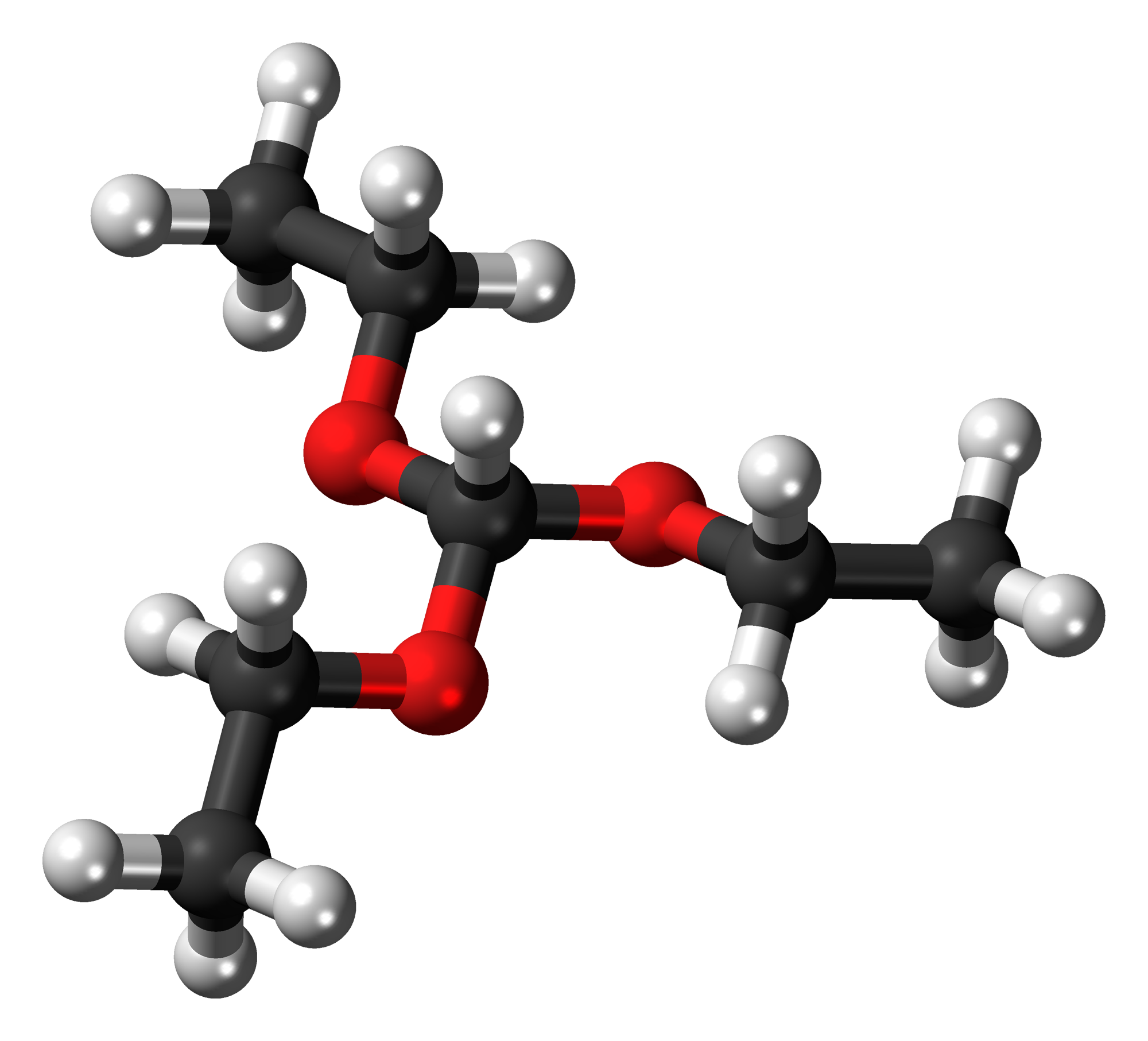 Ball-and-stick model of the triethyl orthoformate molecule, an orthoester of formic acid. Colour code: Carbon, C: black Hydrogen, H: white Oxygen, O: red